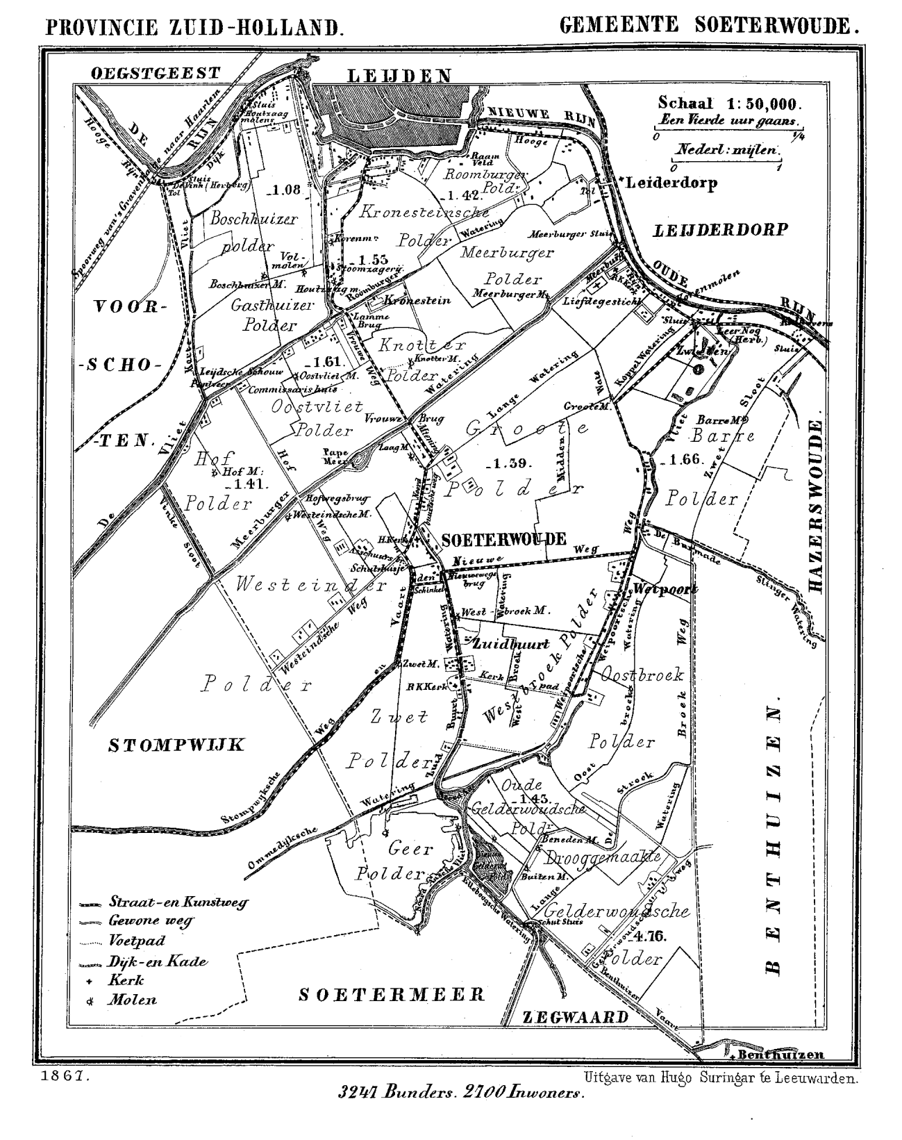 Historic map of Zoeterwoude, South Holland, the Netherlands